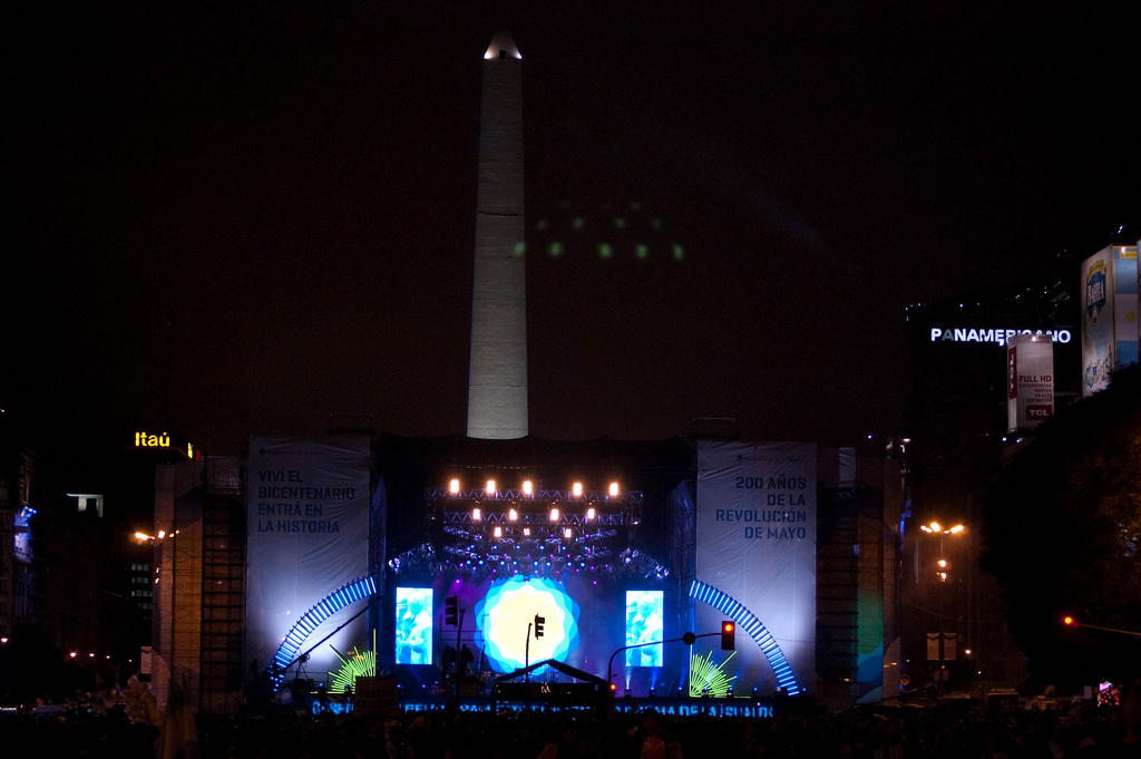 Homenaje al Rock Nacional.